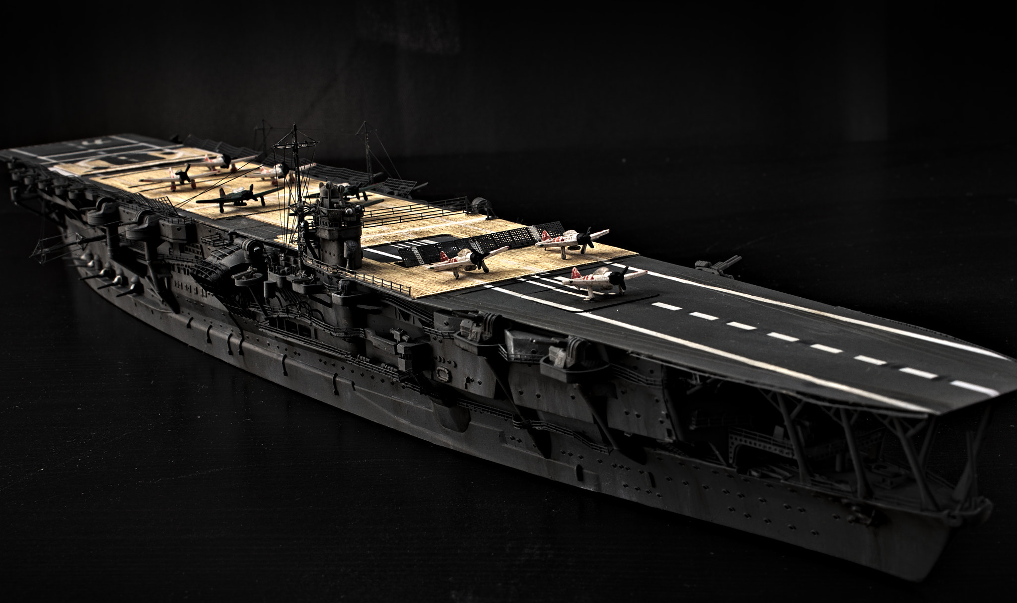 500px provided description: ????????????????????????? [#aircraft ,#japan ,#ship ,#military ,#miniature ,#japanese ,#aircraft carrier ,#mitsubishi ,#pearl harbor ,#carrier ,#world war 2 ,#scale model ,#fujimi ,#plastic model ,#kaga ,#ijn ,#1:700 ,#standard aircraft carrier ,#nikijima]